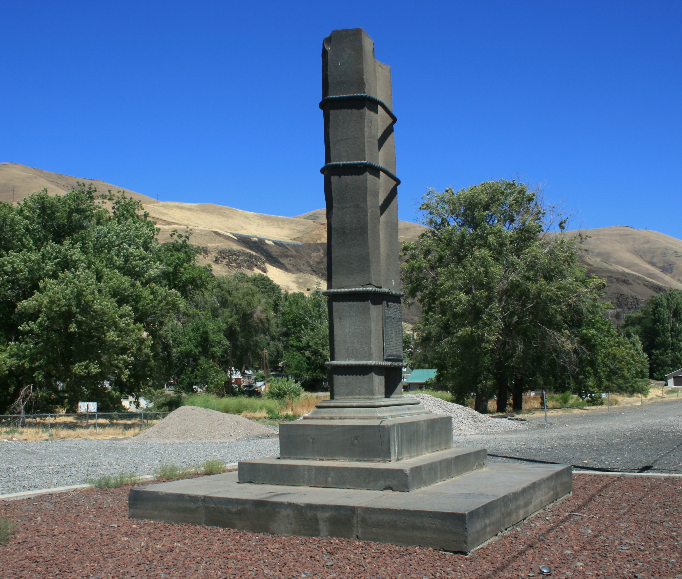 In 1926 a pioneer memorial was raised at Wishram/Fallbridge. Still located in its original postion 100 feet east of the passenger train station today, it consists of two columns of basalt bound together with iron straps and mounted on a pedestal. A bronze plaque recognizing various pioneers who have been to Wishram begins with Meriwether Lewis and ends with John C. Fremont. It originally marked the beginning of a 1/2 mile path from that monument to Celilo Falls; that path is now covered by the backwaters from The Dalles Dam.